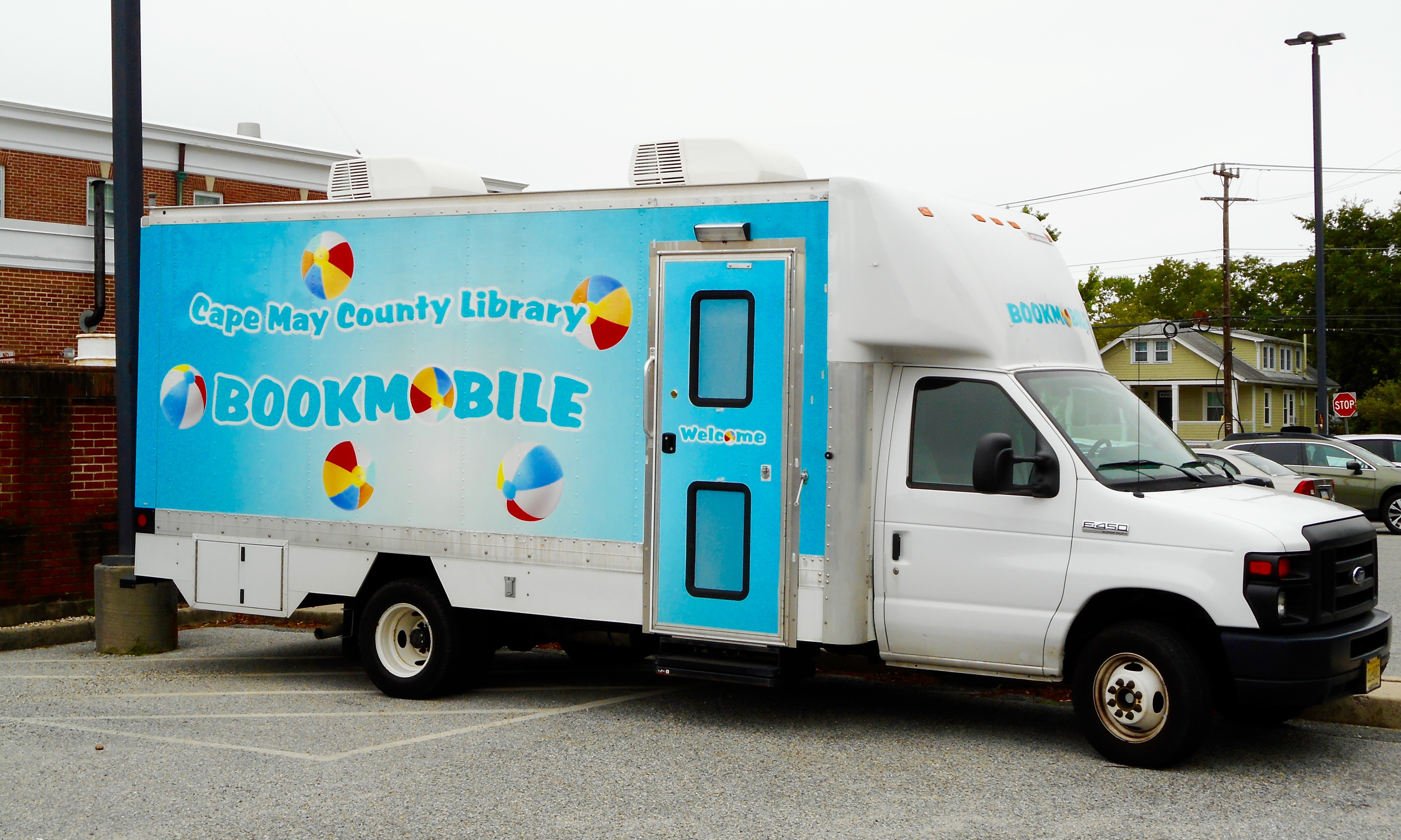 Cape May County Library bookmobile parked in back of the main branch in Cape May Court House, New Jersey